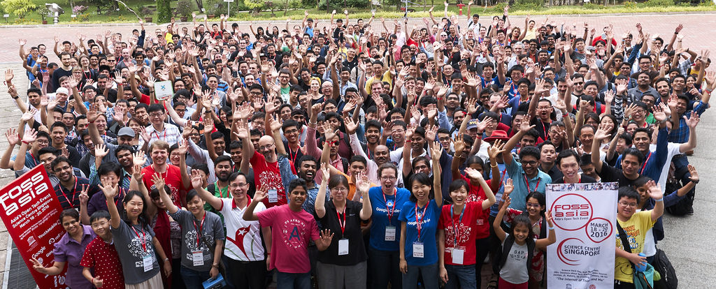 FOSSASIA2016GroupPhoto